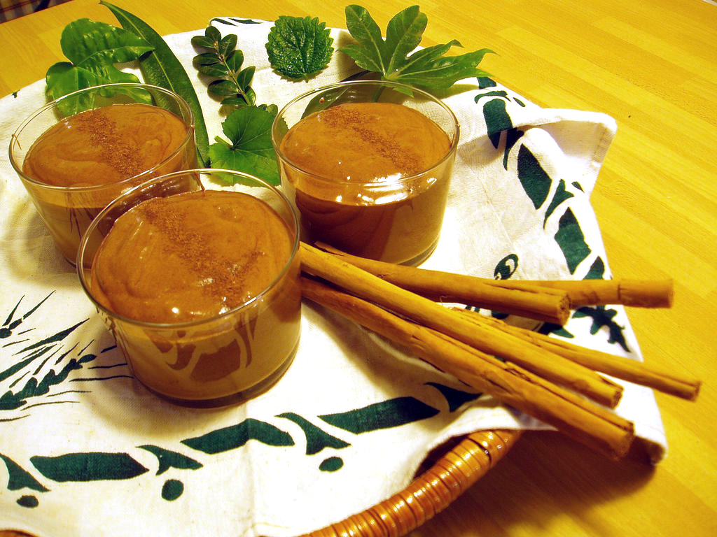 Photograph of chocolate mousse desserts.